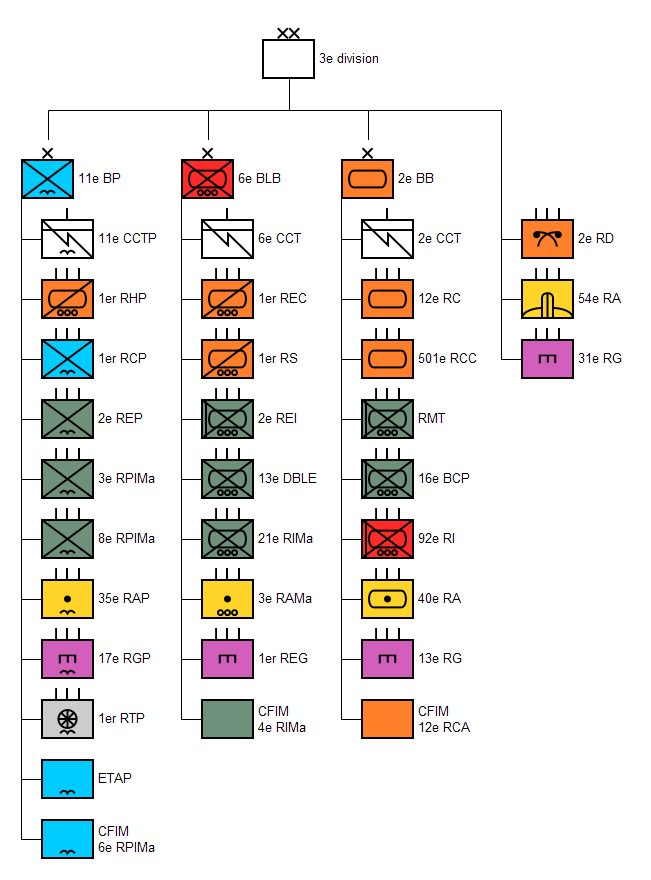 Organizational chart of the 3e division (Armée de Terre).